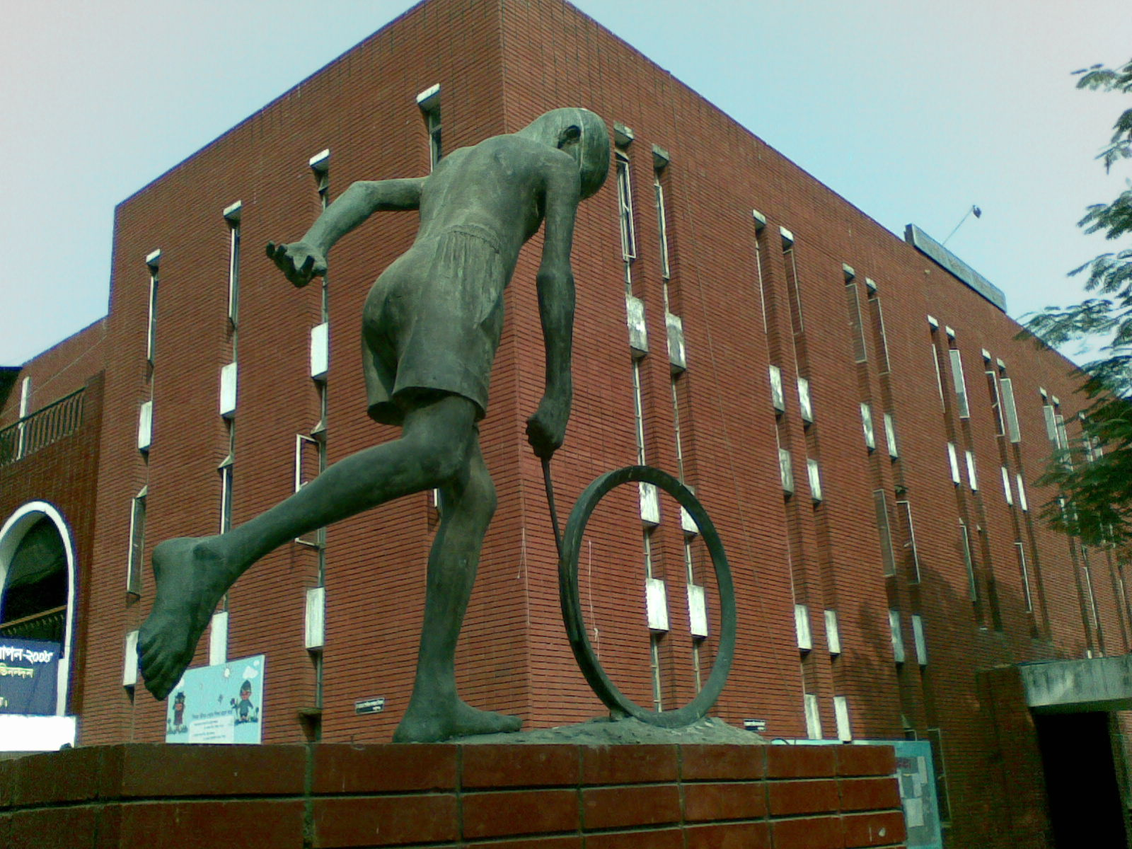 Sculptor: Sultanul Islam; Location: Bangladesh Shishu Academy Premises, Dhaka.